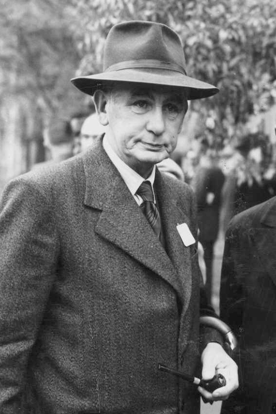 Scentists Dr David Miller and Dr Harry Howard Allan, photographed between 1956-1957. Location unknown. Photographer unidentified.